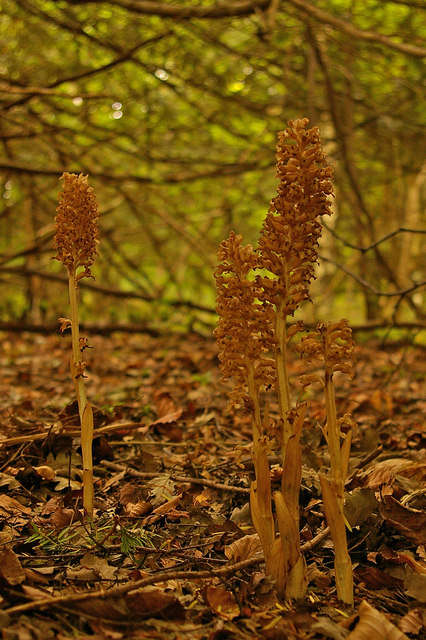 Bird's-nest Orchids (Neottia nidus-avis) On White Hill. This species is saprophytic, feeding on leaf litter in deep shade, and therefore has no need for chlorophyll, hence the lack of any green colour. The name "birds nest" refers to the shape of the roots (not that they should be dug up to investigate!).